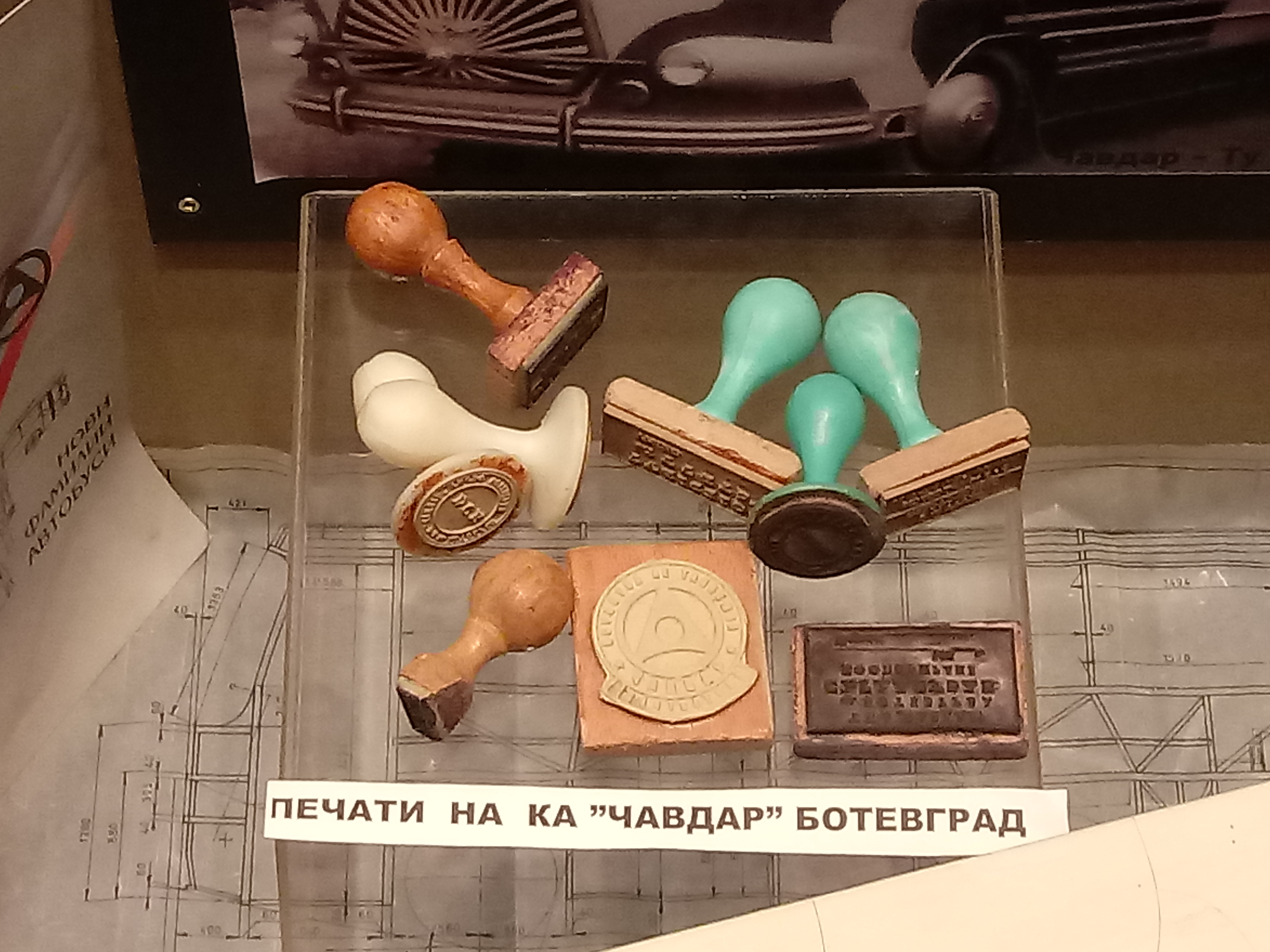 This photo/audio/video was uploaded during the creation of the first wikitown in Bulgaria – WikiBotevgrad. All files are uploaded by their authors or their permission. The cooperation is between Wikimedians of Bulgaria User Group, Municipality Botevgrad, Historical Museum - Botevgrad and Ivan Vazov Library in Botevgrad.